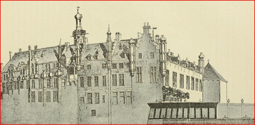 Palace of Nassau (Brussels) seen from the Ruisbroekstraat - drawing by F.J. Derons of 1759 (Prentenkabinet, Royal Library of Belgium)